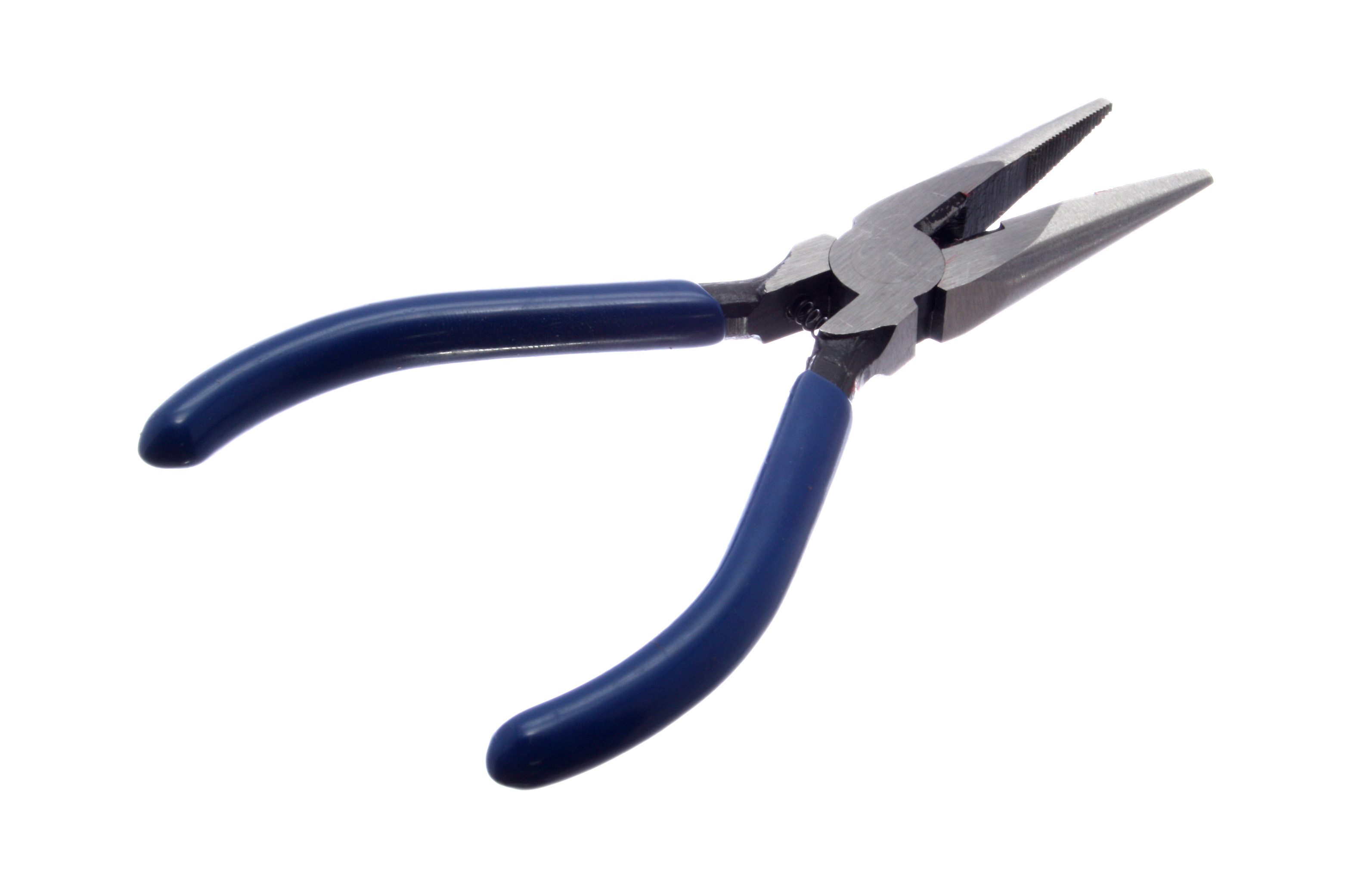 Basic Needle Nose Pliers.